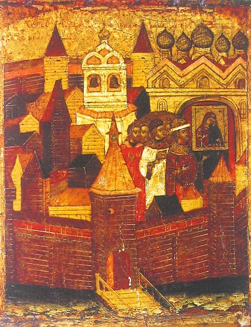 The Yaroslavl Kreml. Margin image of the icon.